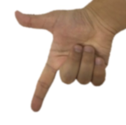 The gesture of number 7 in coastal South China (Fujian Province and Guangdong Province)